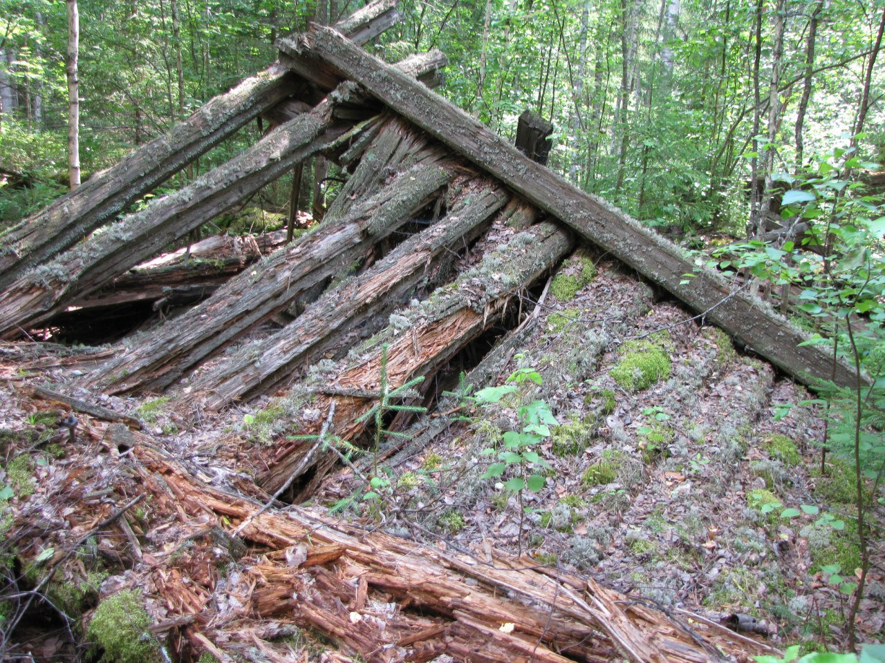 Ruins of GULAG camp buildings